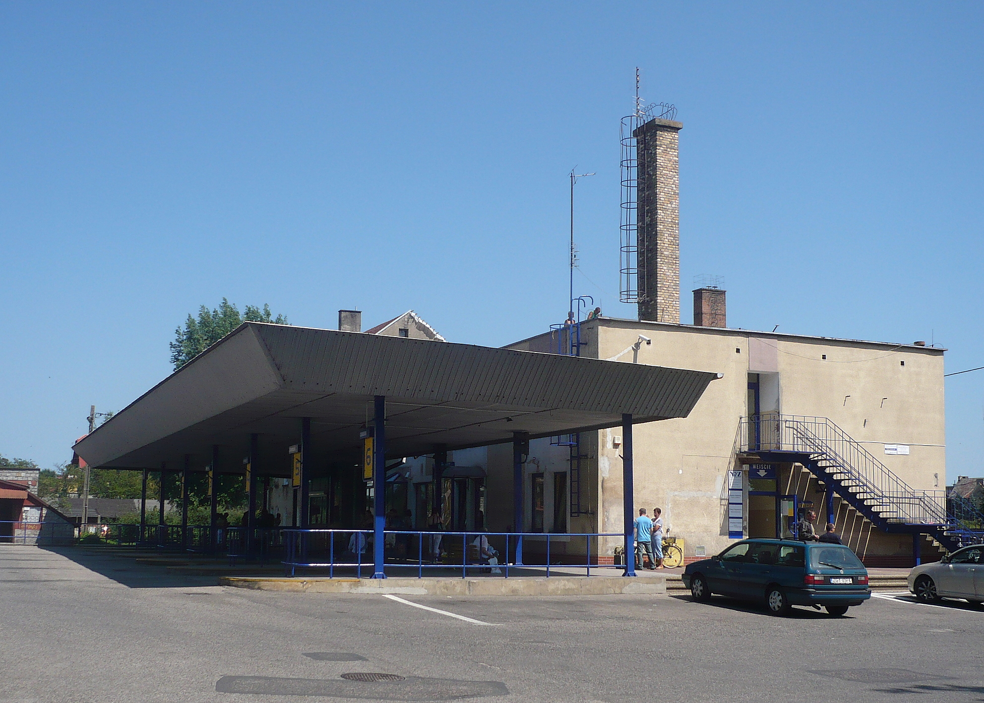 Bus station in Gryfice, Poland